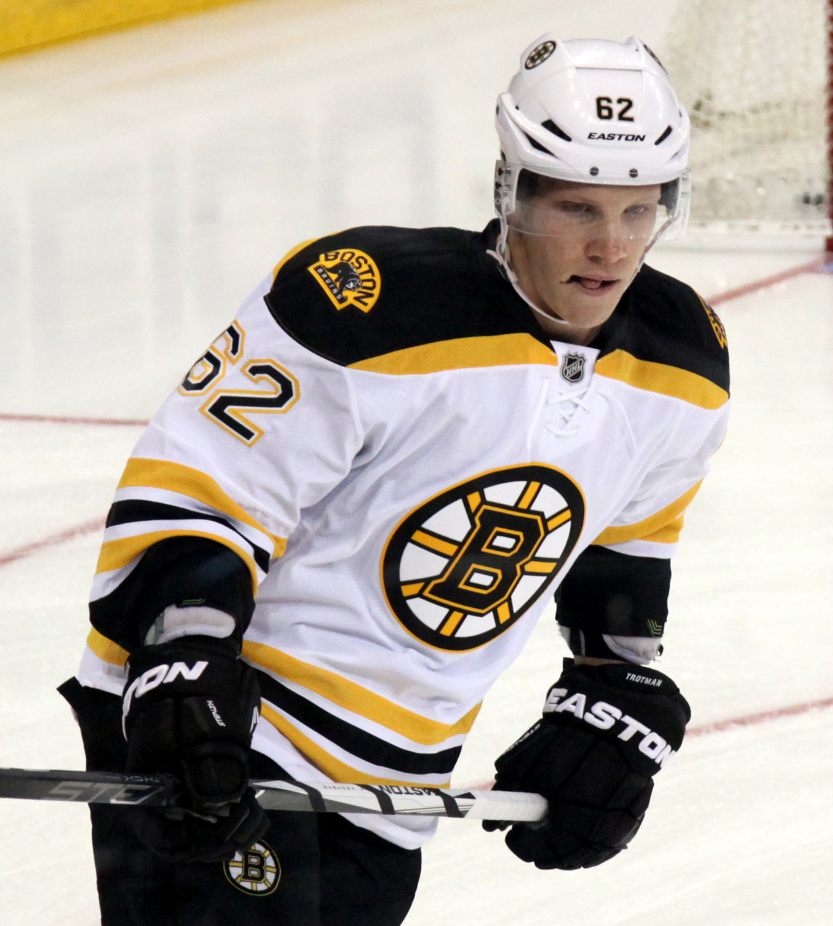 Trotman in September 2015.